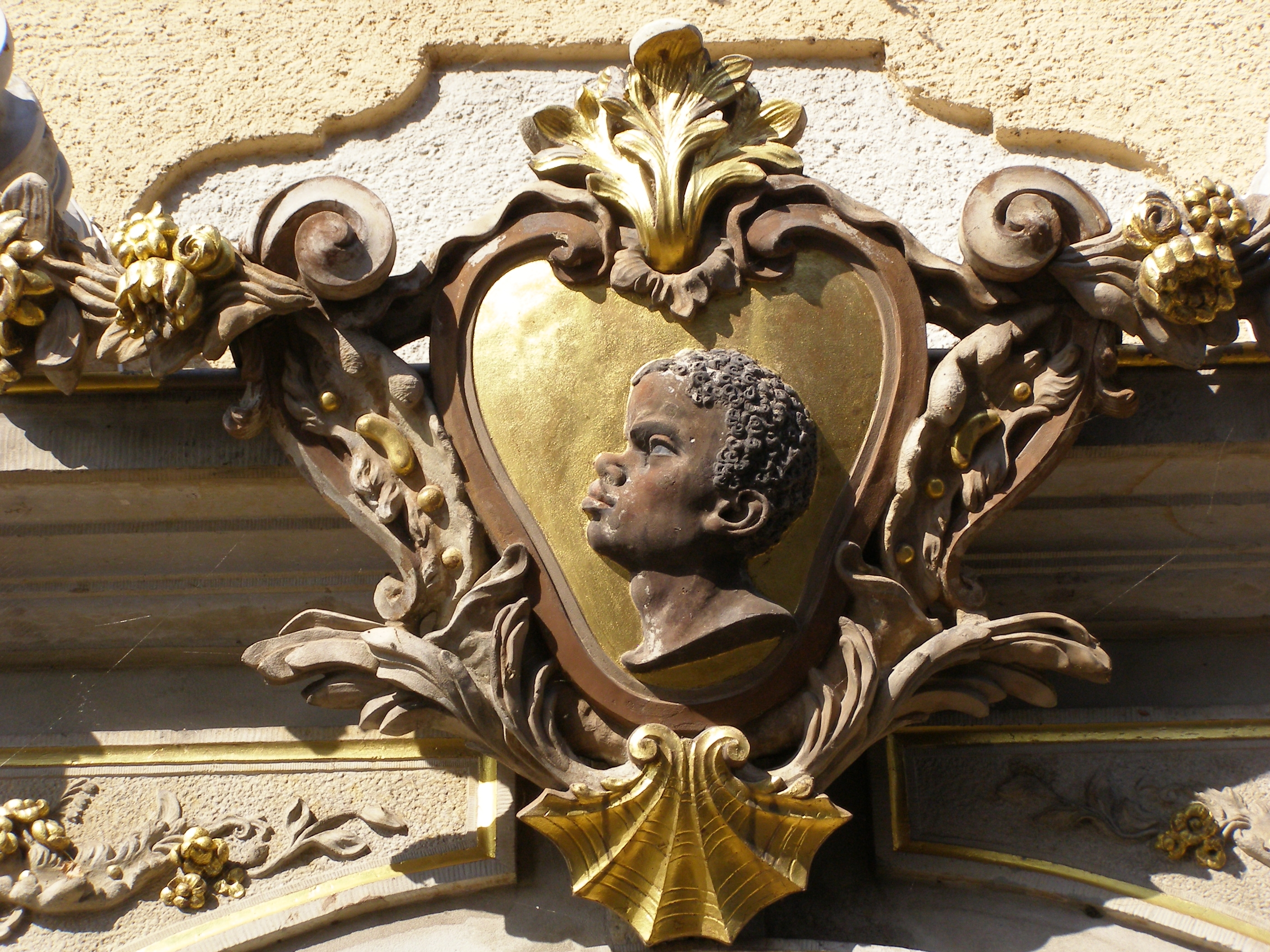 Gdańsk - Under Blackhead House, Hotel Podewils